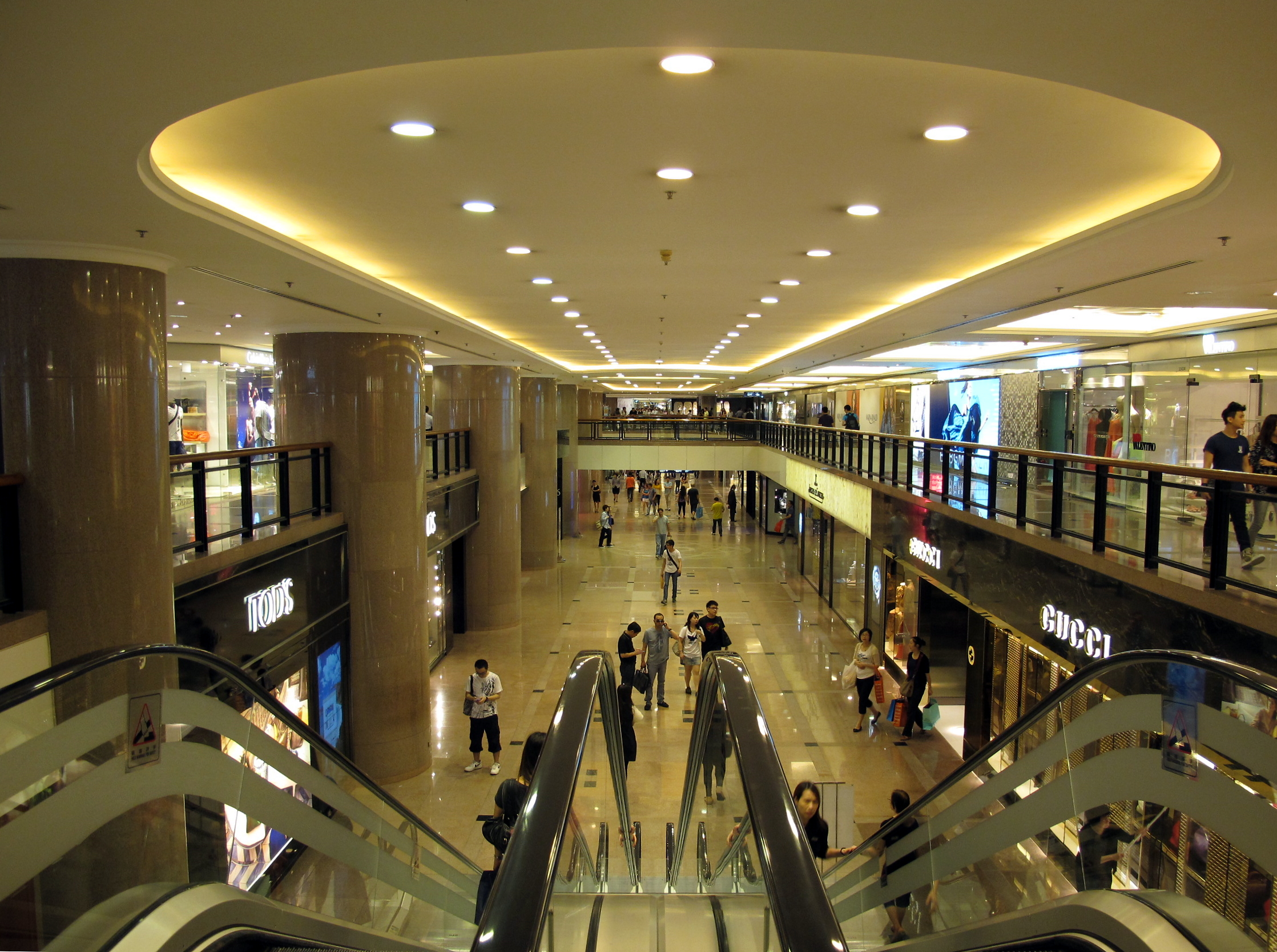 Gateway, Harbour City 港威商場